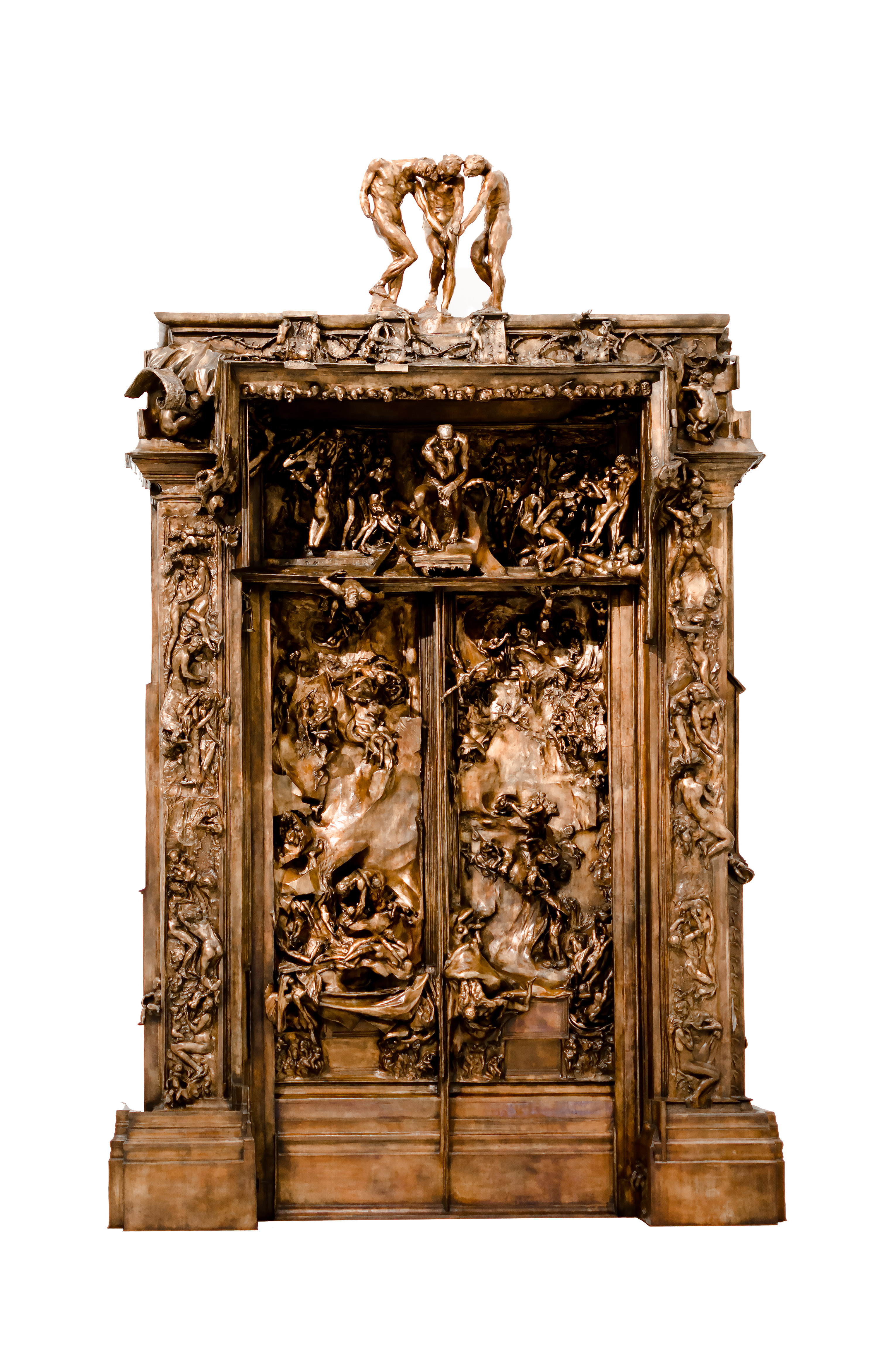 Museo Soumaya - CDMX.